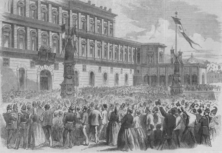 Victor Emmanuel II The King of Italy at the Pitti Palace